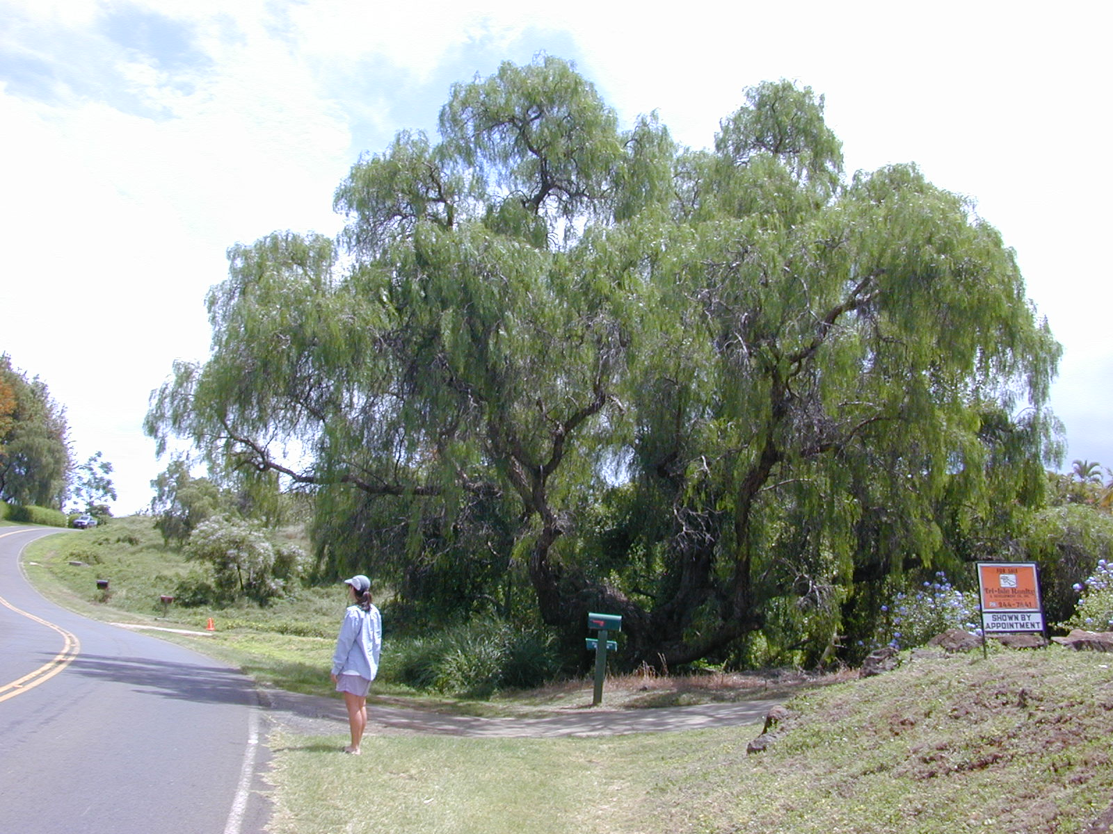 Schinus molle (Habit). Location: Maui, Kula